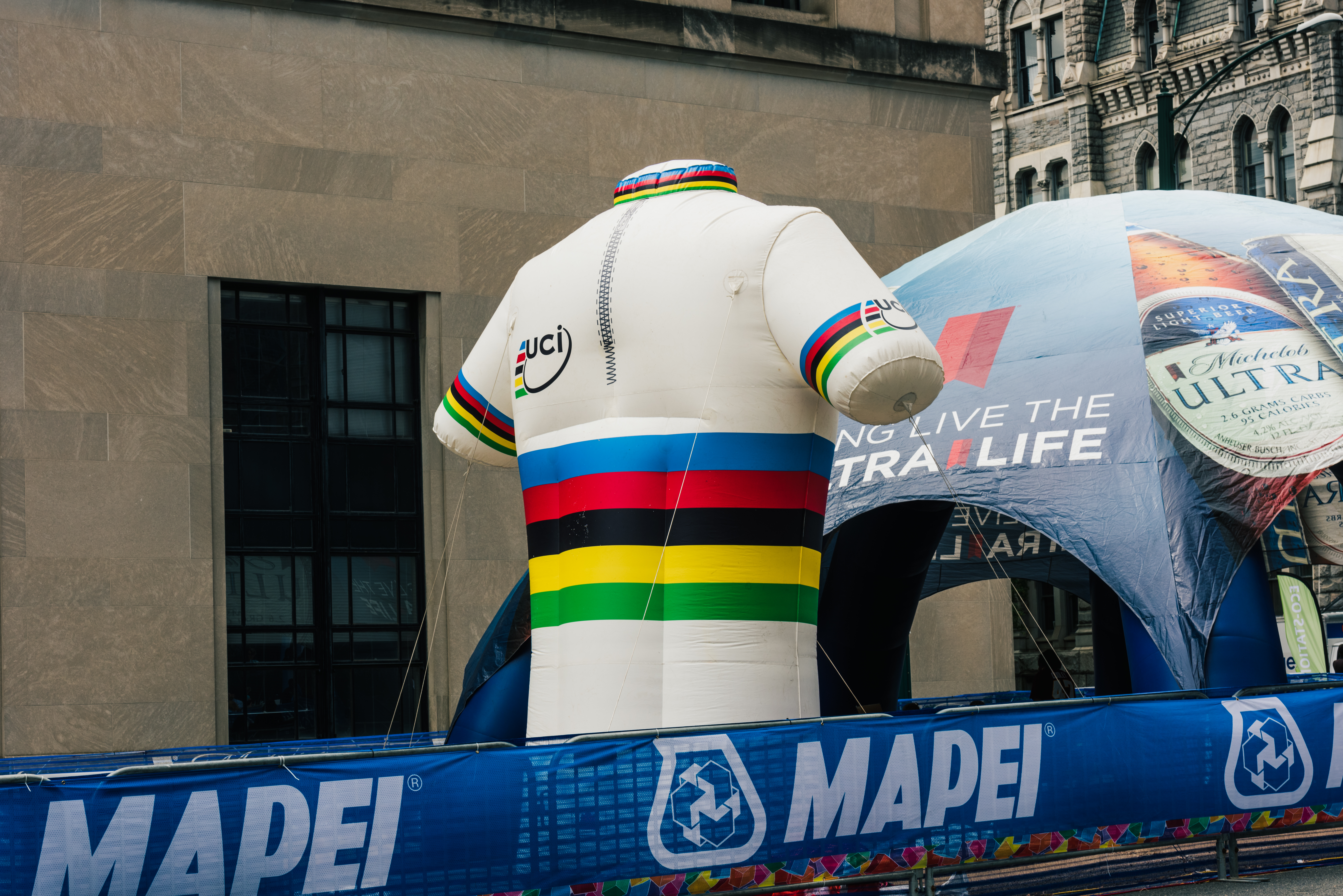 UCI Bike Race 2015 Richmond, VA 2015 UCI Road World Championships – Men's under-23 time tria in Richmond, USA